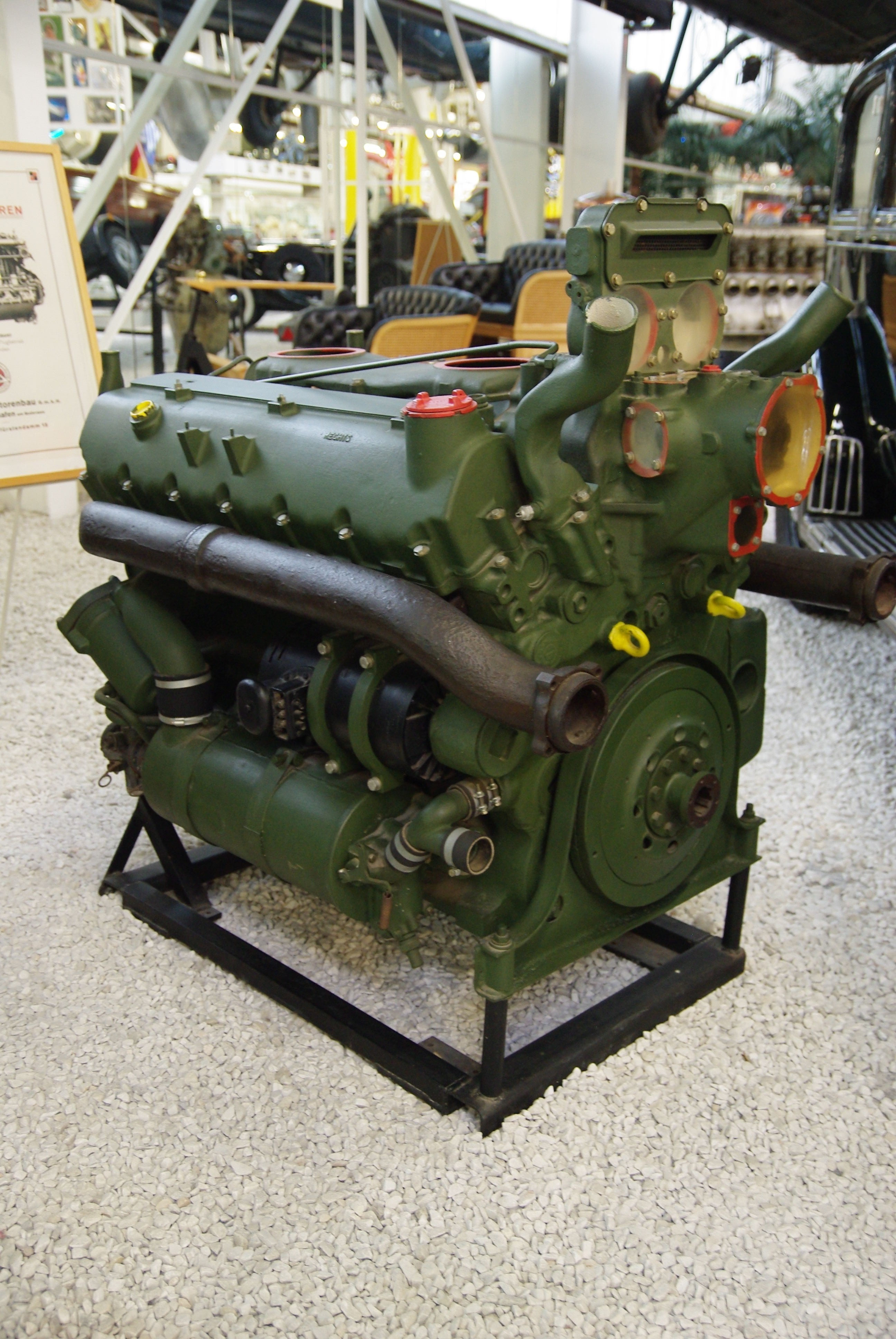 Maybach HL 230 in TechnikMuseum, Sinsheim, Germany